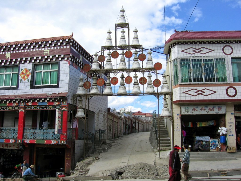 Ganzi (Garze) is a town in Garzê Tibetan Autonomous Prefecture in western Sichuan Province, China. It is an ethnic Tibetan township located in the historical Tibetan region of Kham.